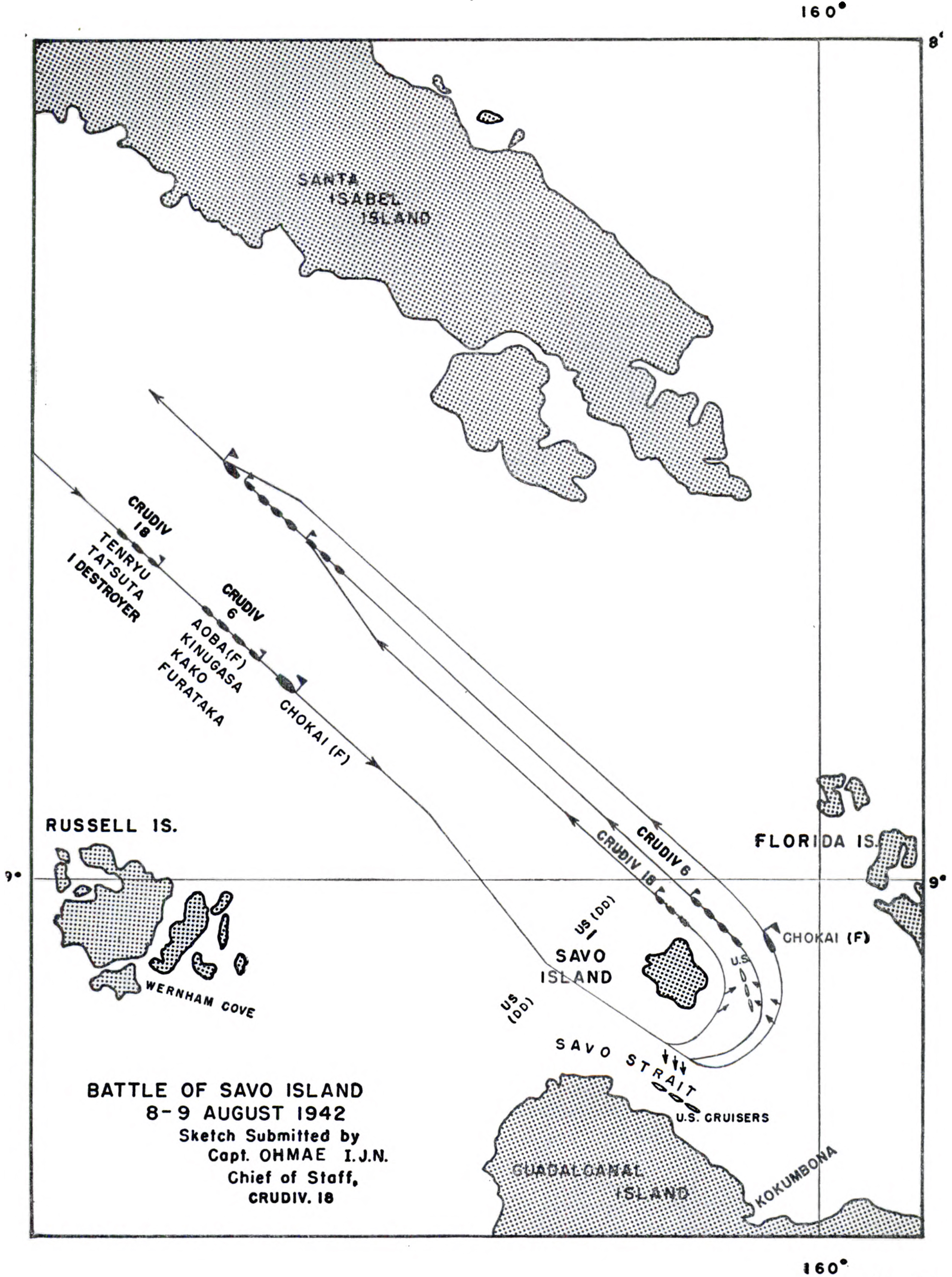 Public domain chart of the Battle of Savo Island showing Japanese movements based on testimony from a surviving Japanese participant, modified by Cla68 on August 31, 2006 to show participation of cruiser Yubari and track of Japanese destroyer Yunagi.